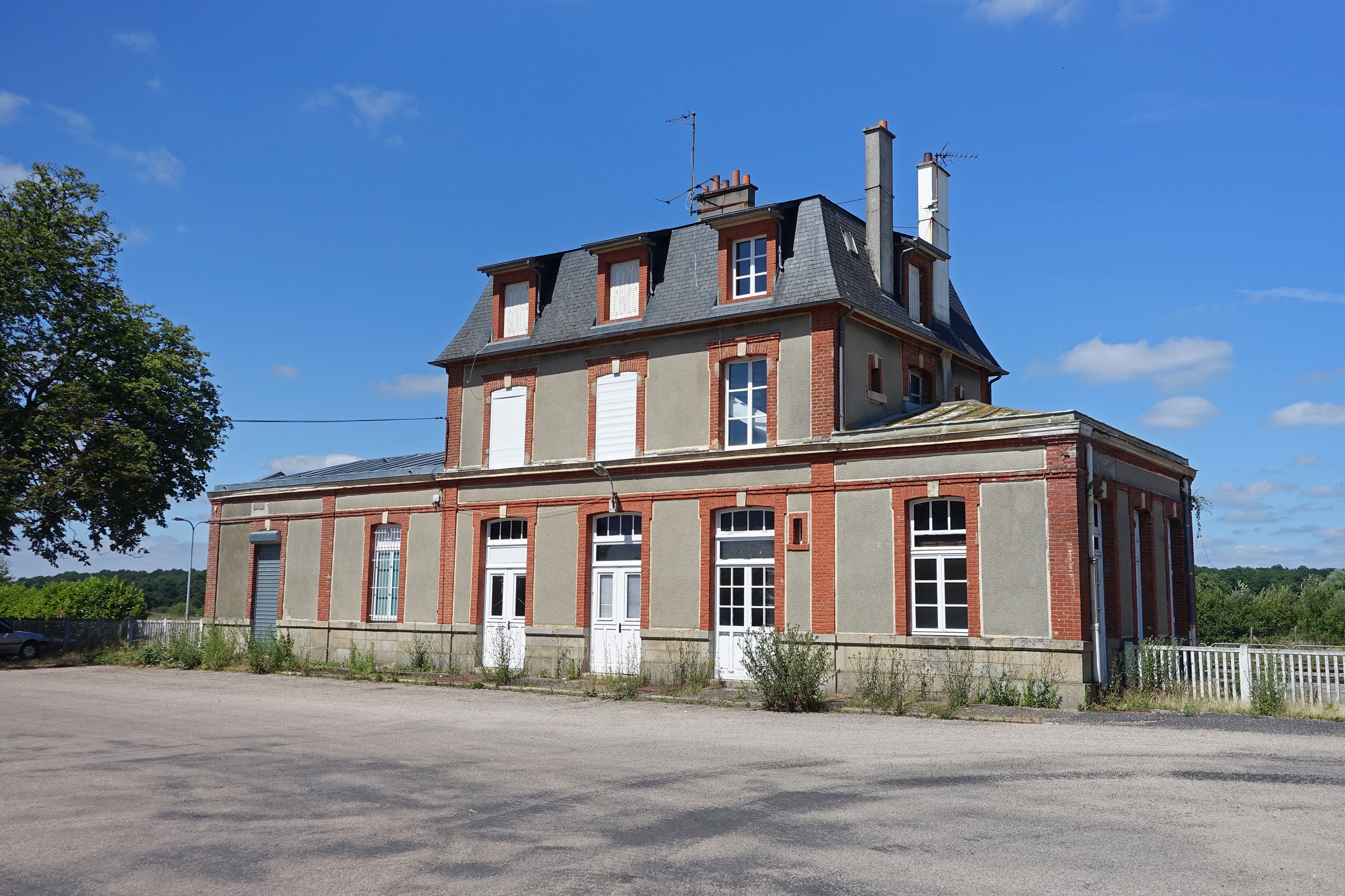 Former buiding of Surdon station.